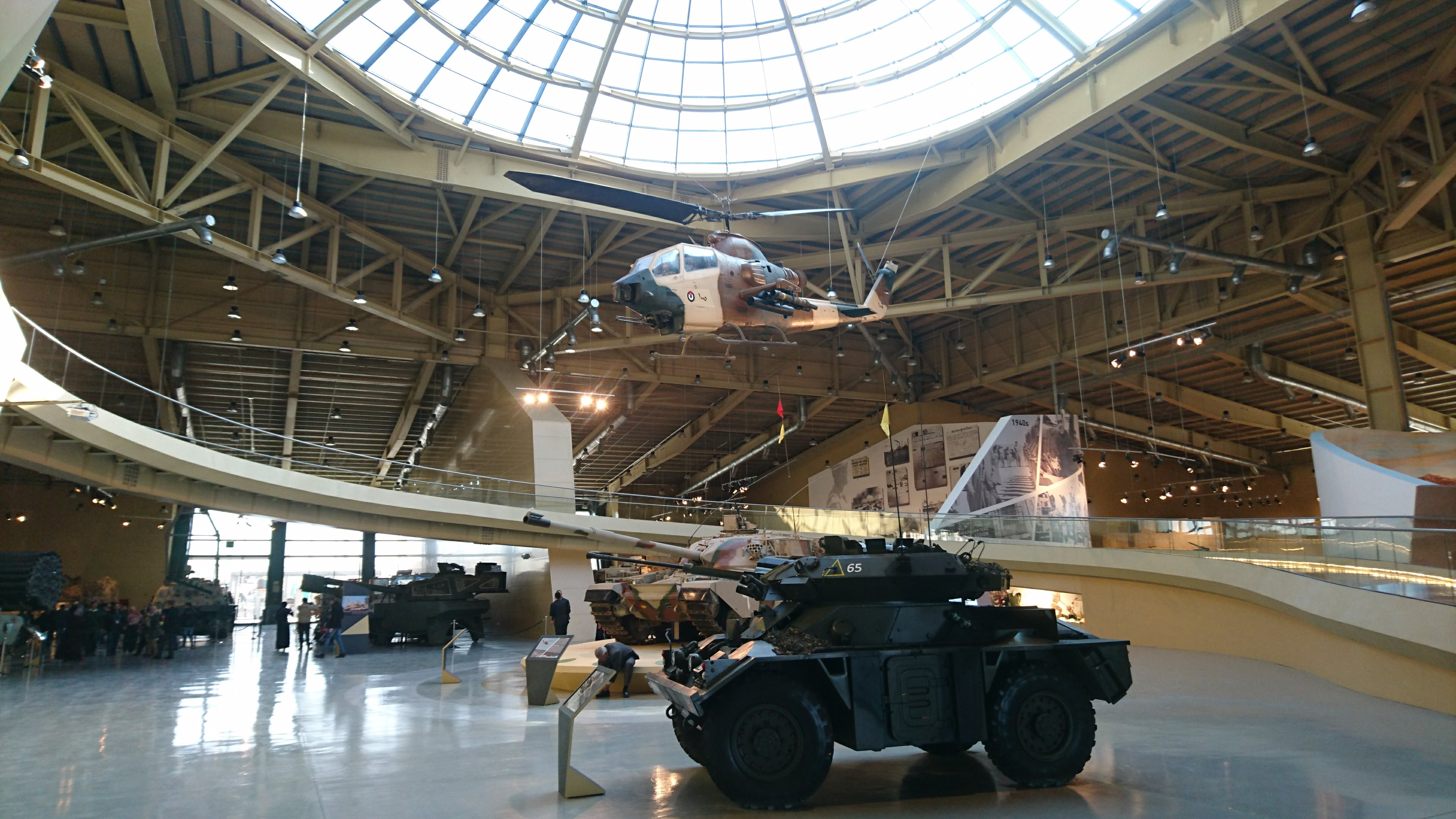 Royal Tank Museum, Amman - Jordan